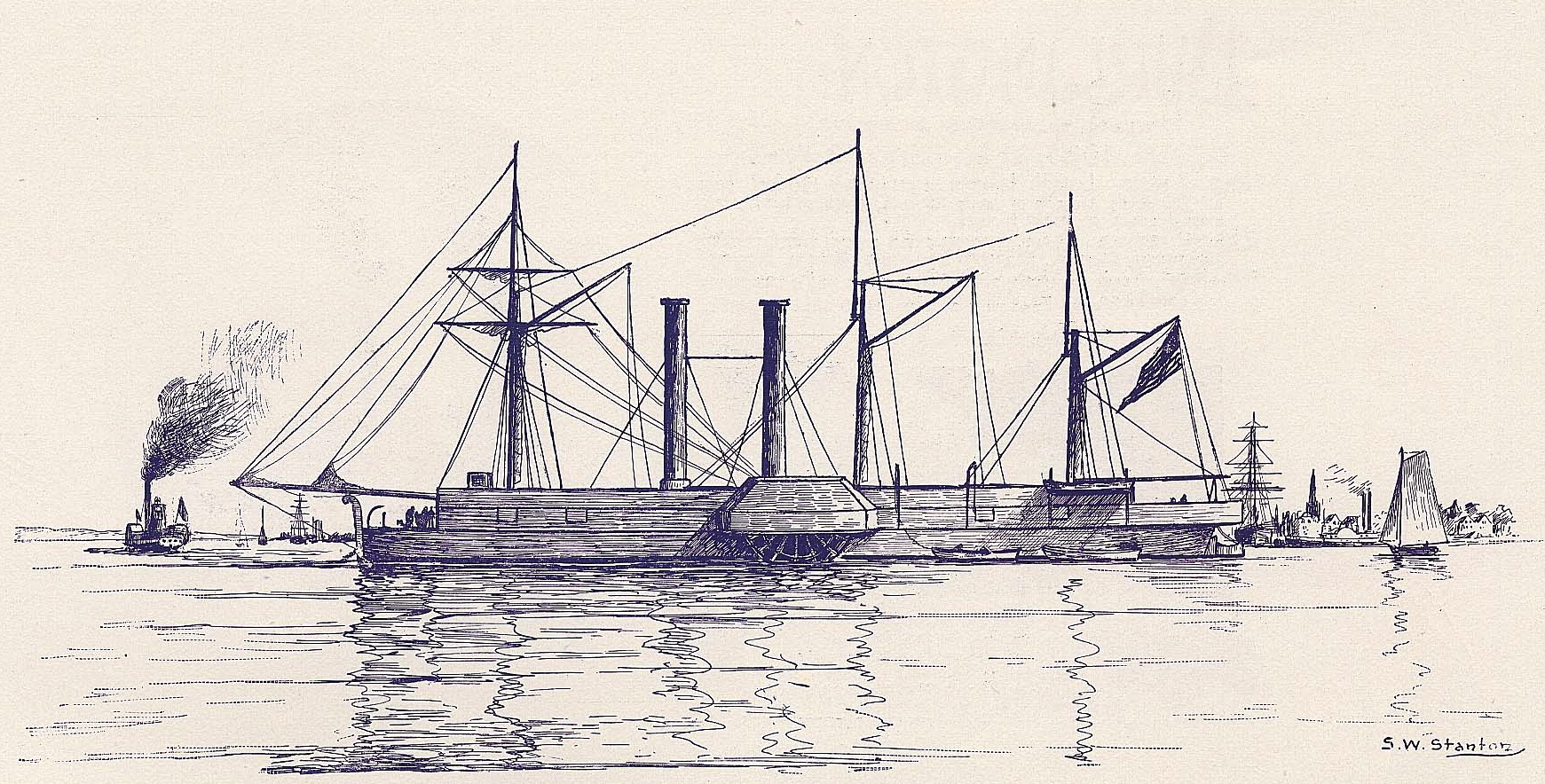 Fulton II, steam frigate built 1837. Later extensively modified for service in the American Civil War, and was then known as Fulton III.